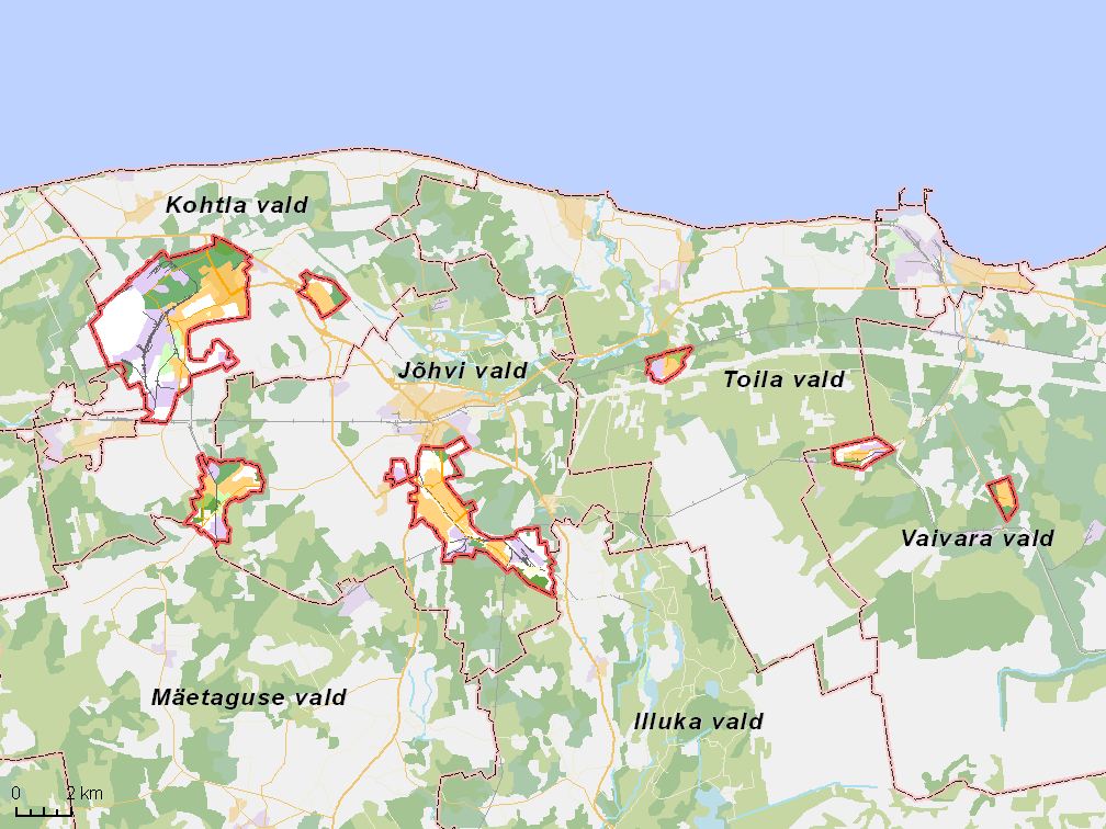 Map of municipality in Estonia